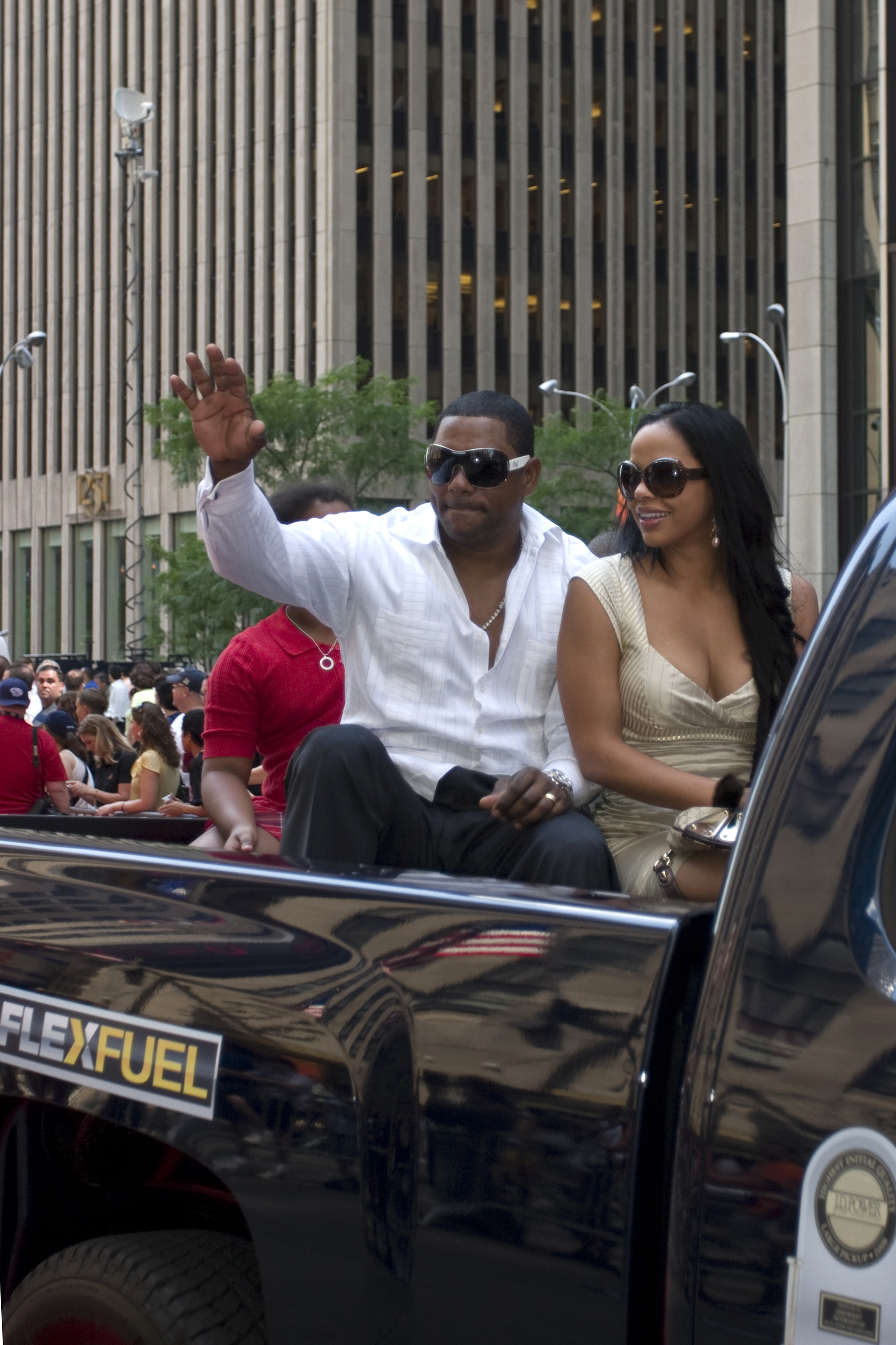 Miguel Tejada. © Rubenstein, photographer Martyna Borkowski